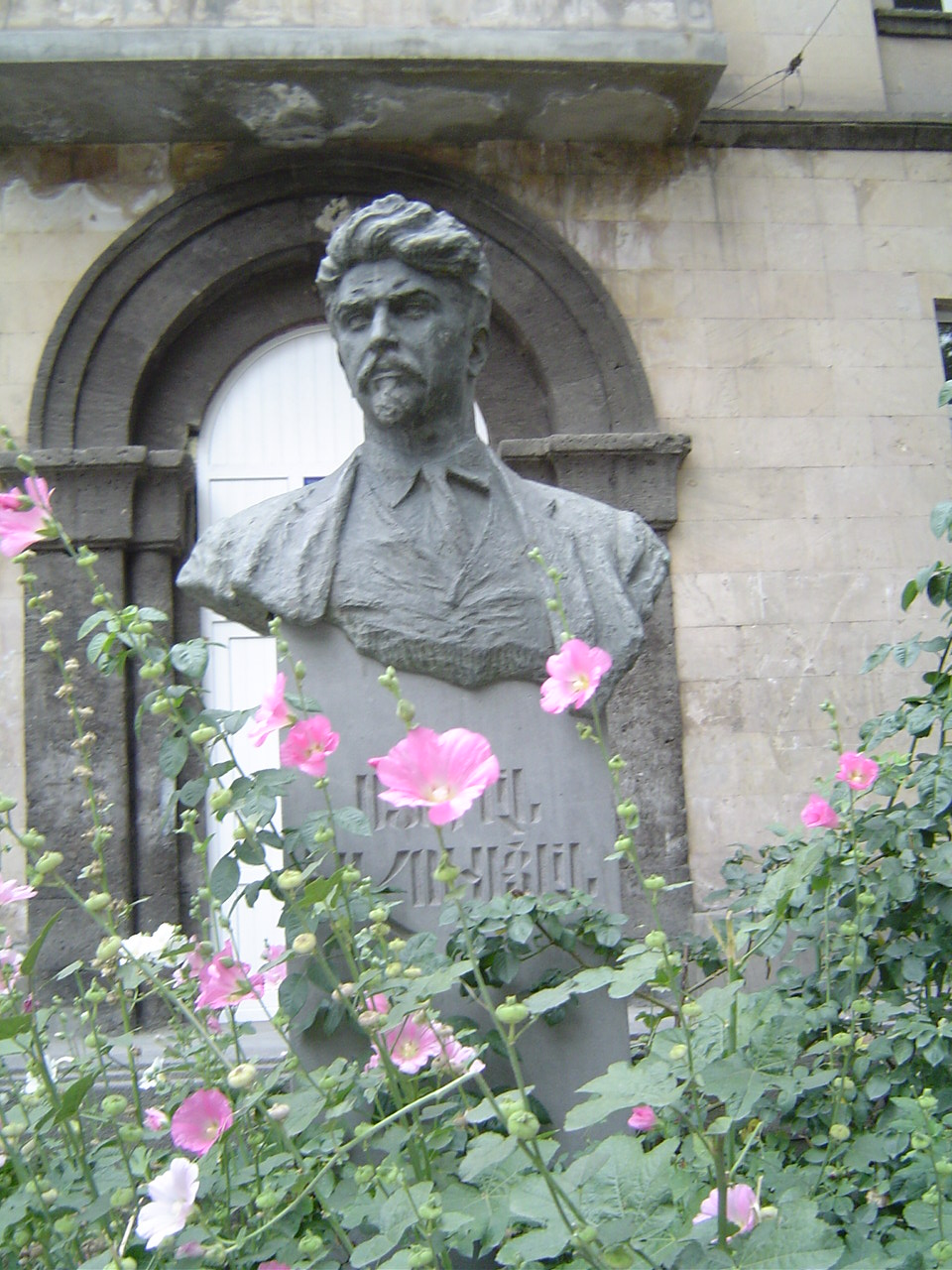 A statue of Stepan Shahumyan on a street in Yerevan, Armenia. Photo taken by Marshal Bagramyan